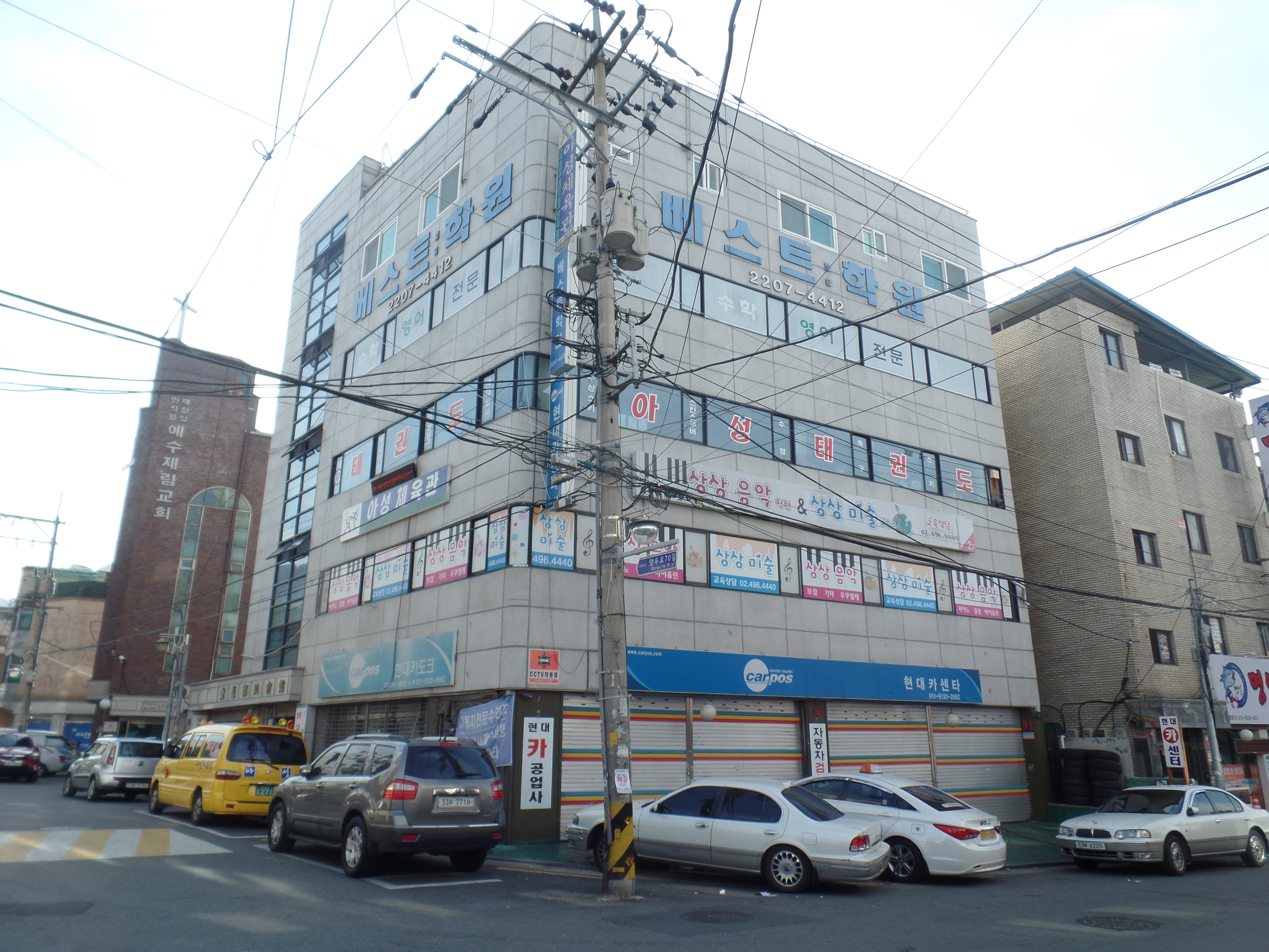 Site of occurrence Lee Young-hak case(Jungnang-gu Middle School girl Murder case) (Exterior of Lee Young-hak's Home in Jungnang-gu Commercial Building)